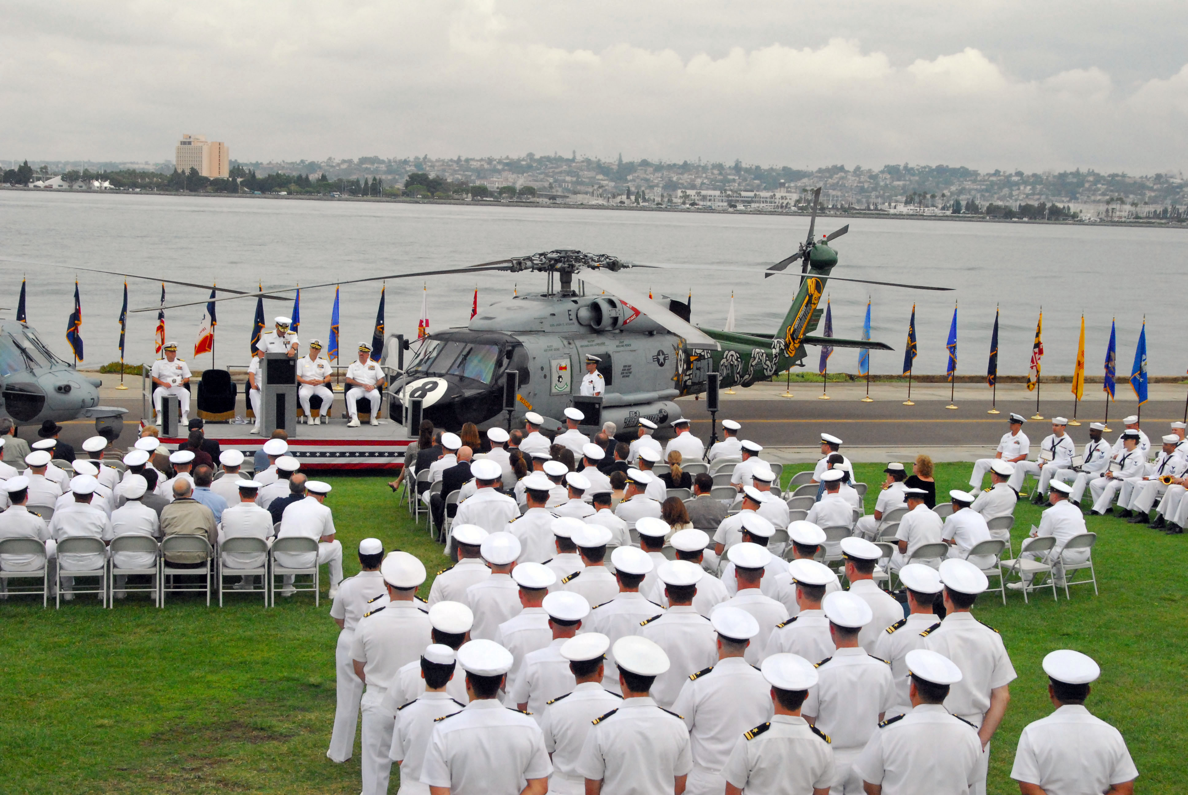 SAN DIEGO (Sept. 28, 2007) - Rear Adm. Gerard Mauer, the guest speaker for the transition ceremony of Helicopter Anti-Submarine Squadron (HS) 8, speaks about the significance of the transition and the history of the squadron. HS-8 is the first HS squadron to transition to a Helicopter Sea Combat Squadron (HSC). U.S. Navy photo by Mass Communication Specialist 3rd Class Chelsea Kennedy (RELEASED)